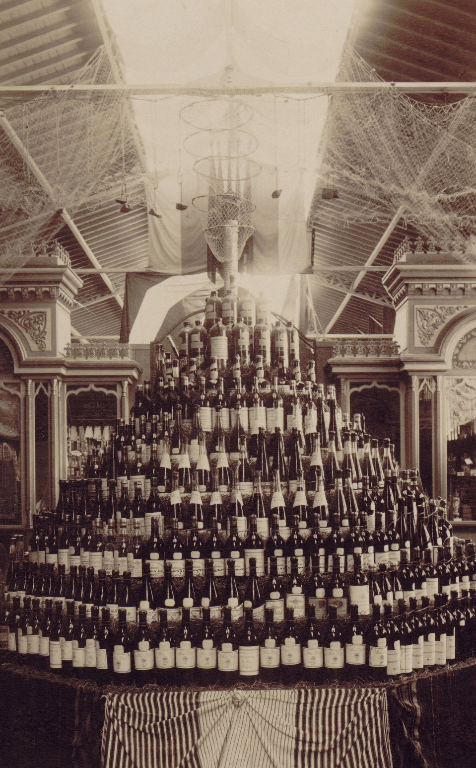 Romanian pavilion at the 1889 Paris Expo: the wines section.